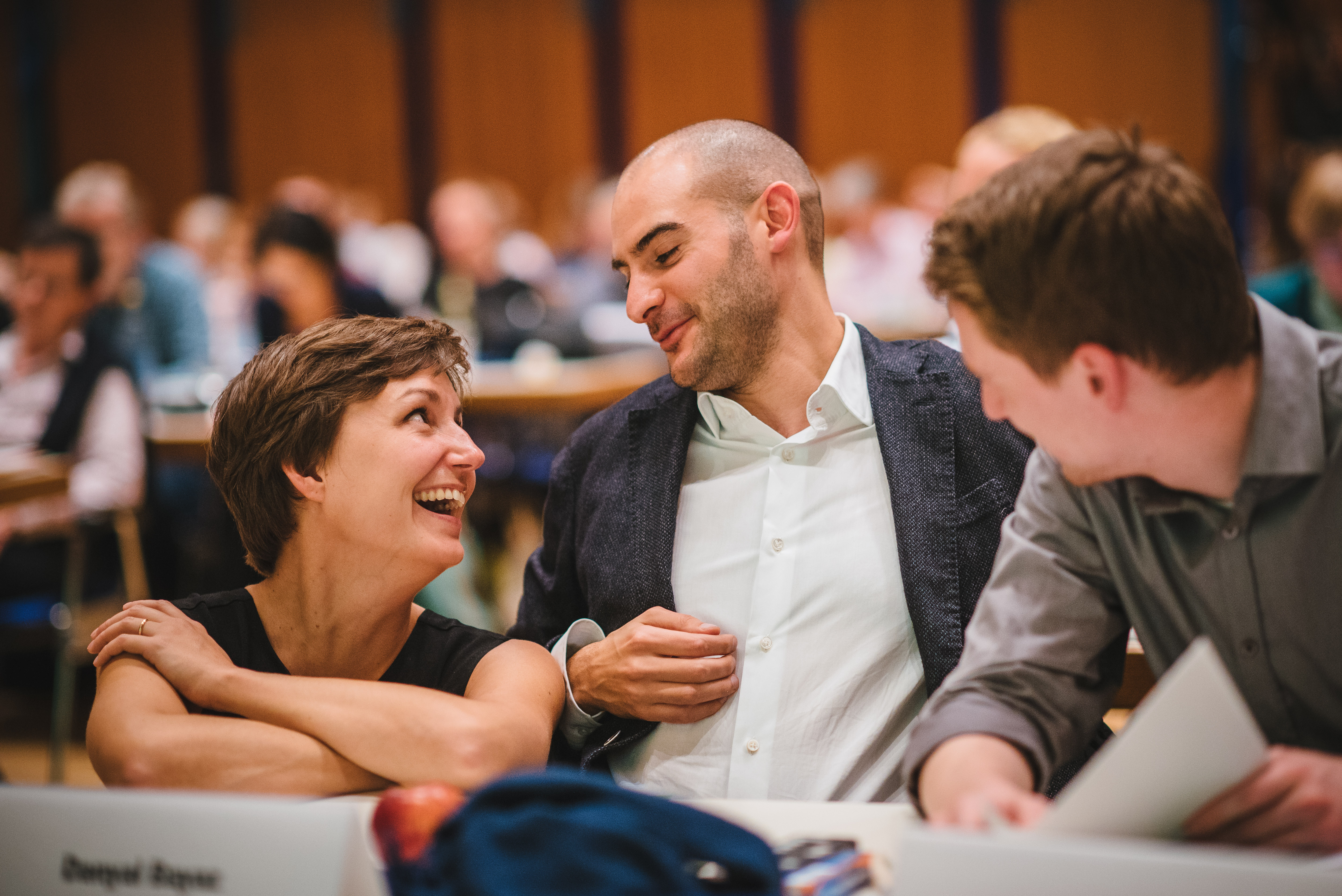 Danyal Bayaz at the party conference of the Greens Baden-Württemberg in Pforzheim, 2013